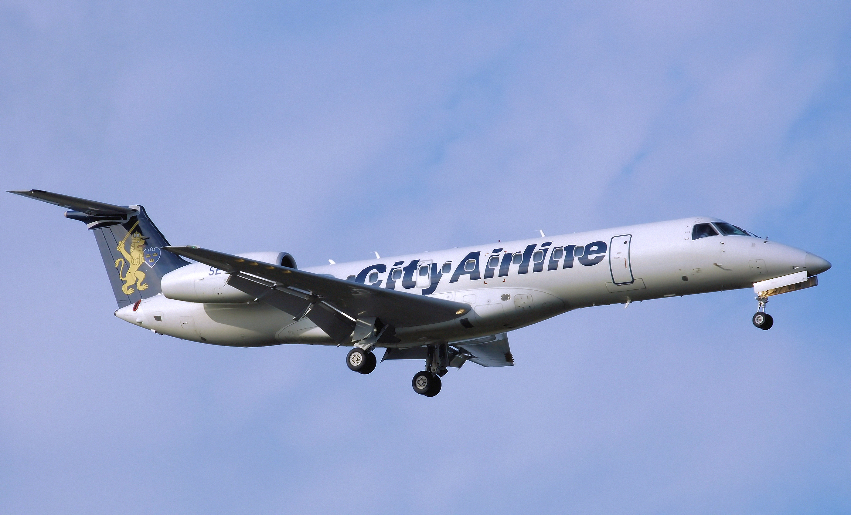 City Airline Embraer ERJ 135 (SE-RAA) landing at Birmingham International Airport, Birmingham, England.